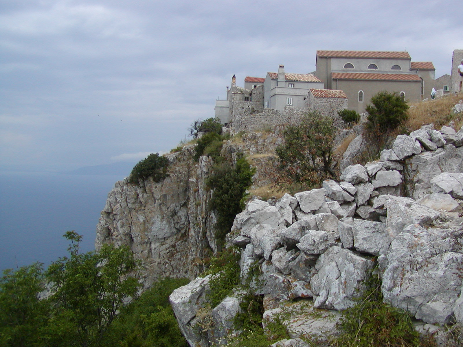 Village Lubenice on island Cres, Croatia